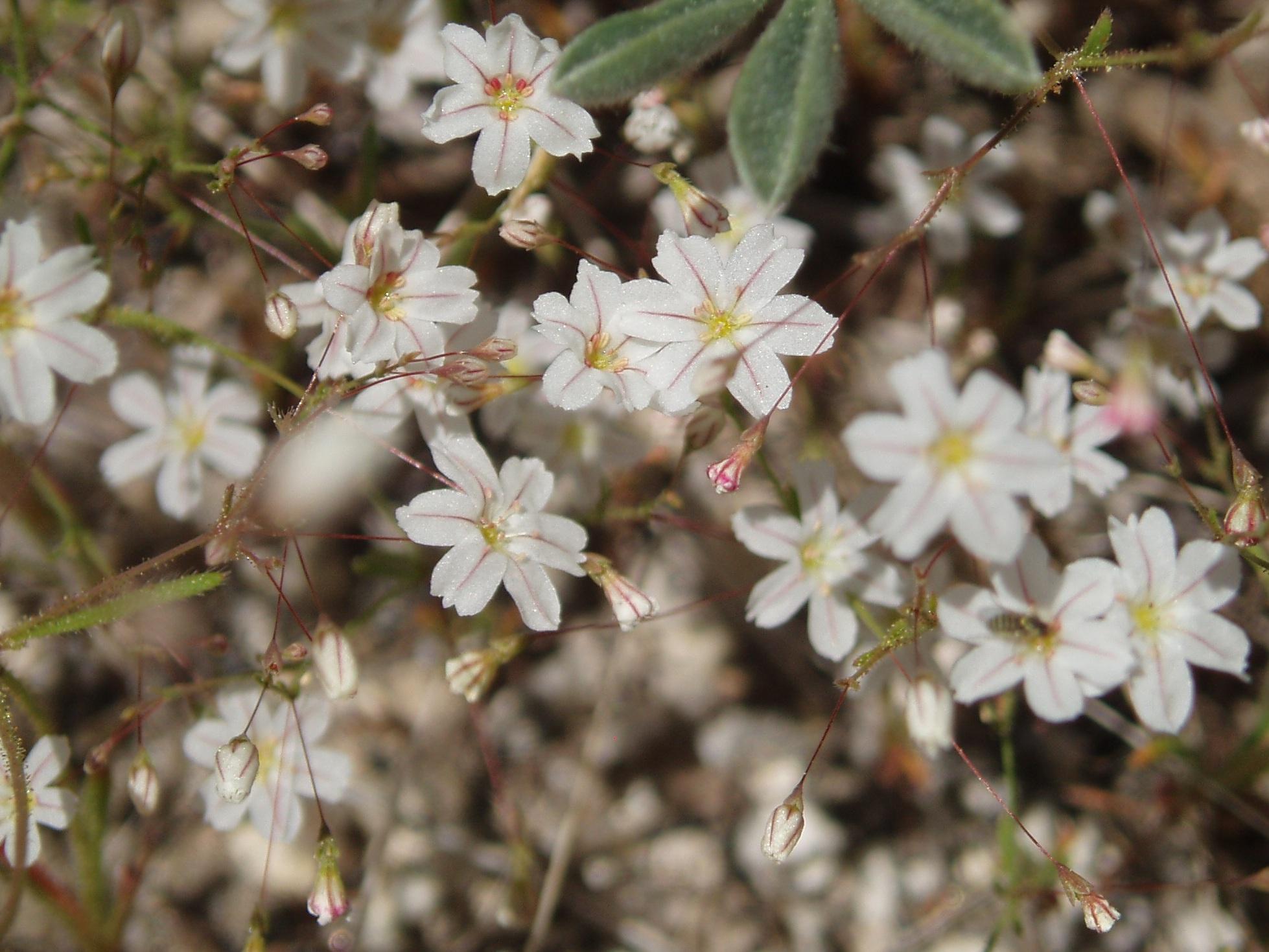 Eriogonum spergulinum near Bridalveil, Yosemite in California, USA.